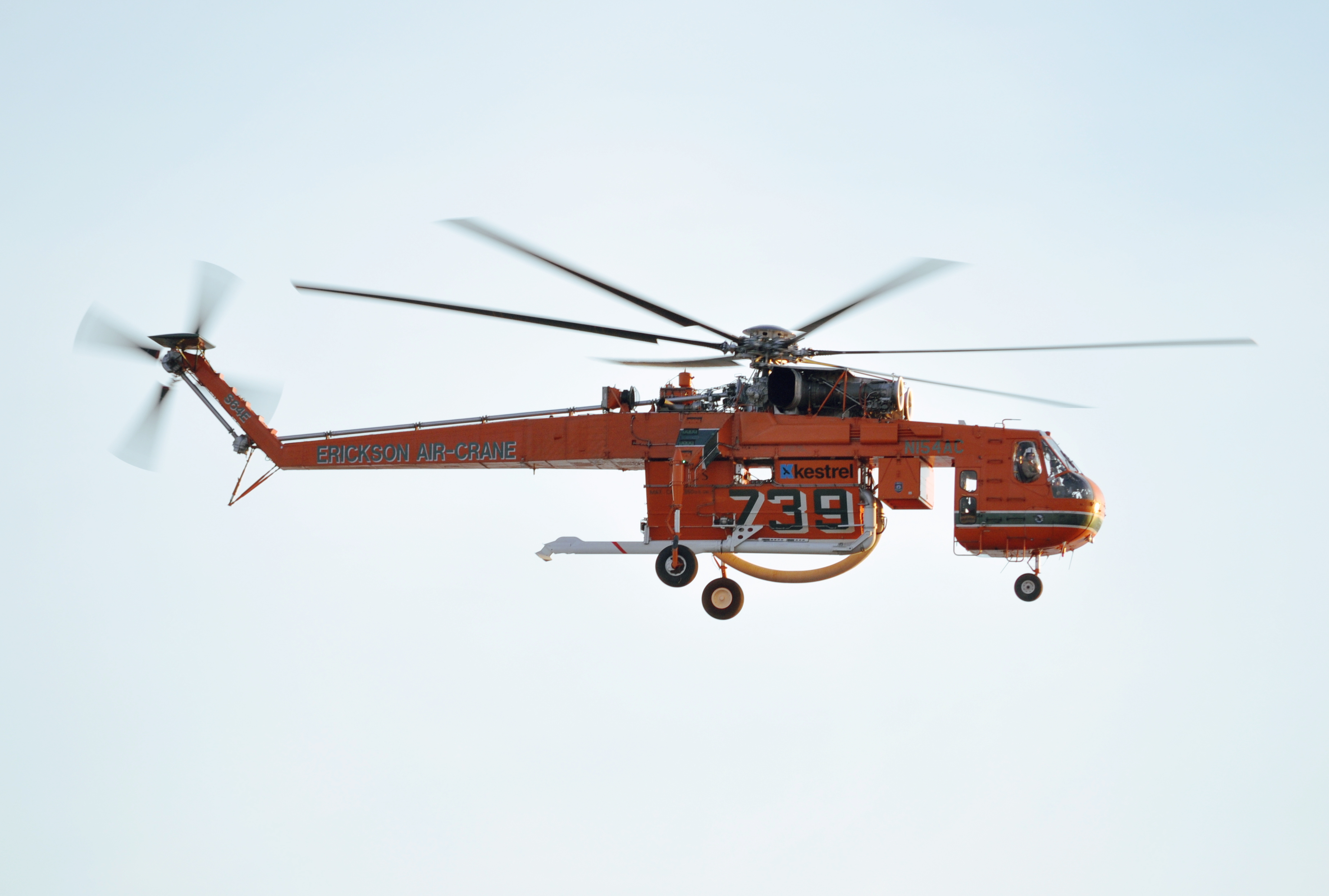 Sikorsky S-64 Skycrane operated by Erickson Aircrane, used for firefighting operations primarily in Western Australia